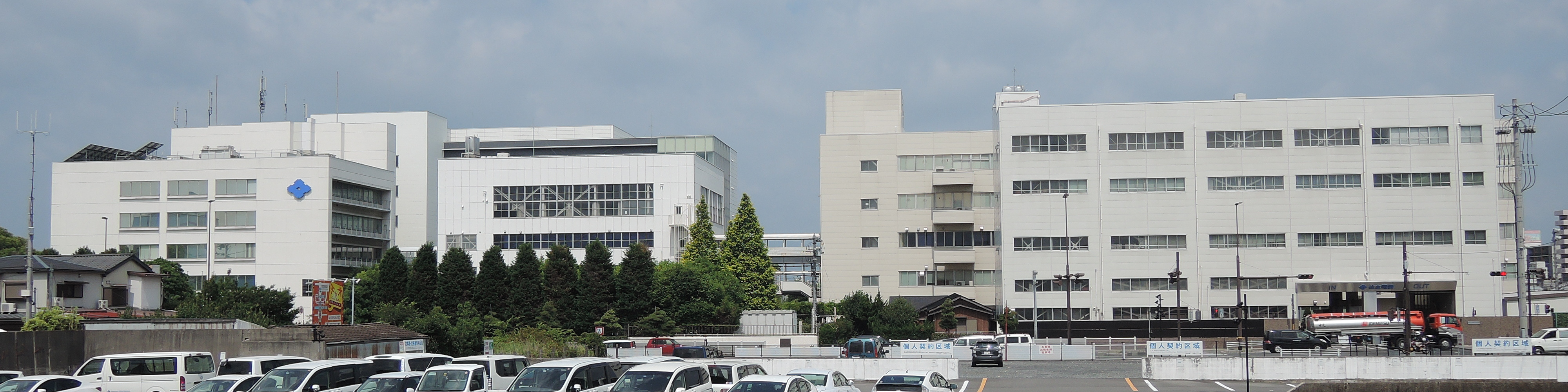 old Headquarters of Sumitomo Wiring Systems, Ltd.,Mie prefecture,Japan